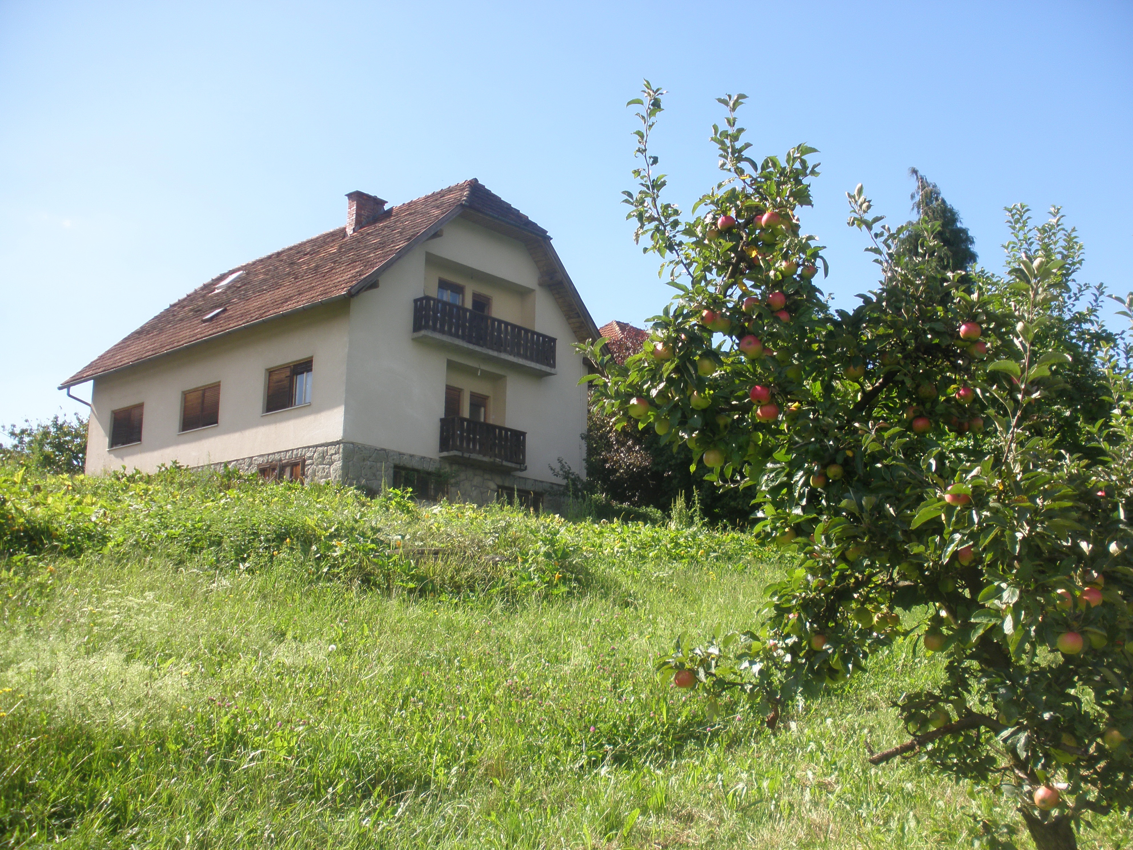 Native house of Anton Jelen